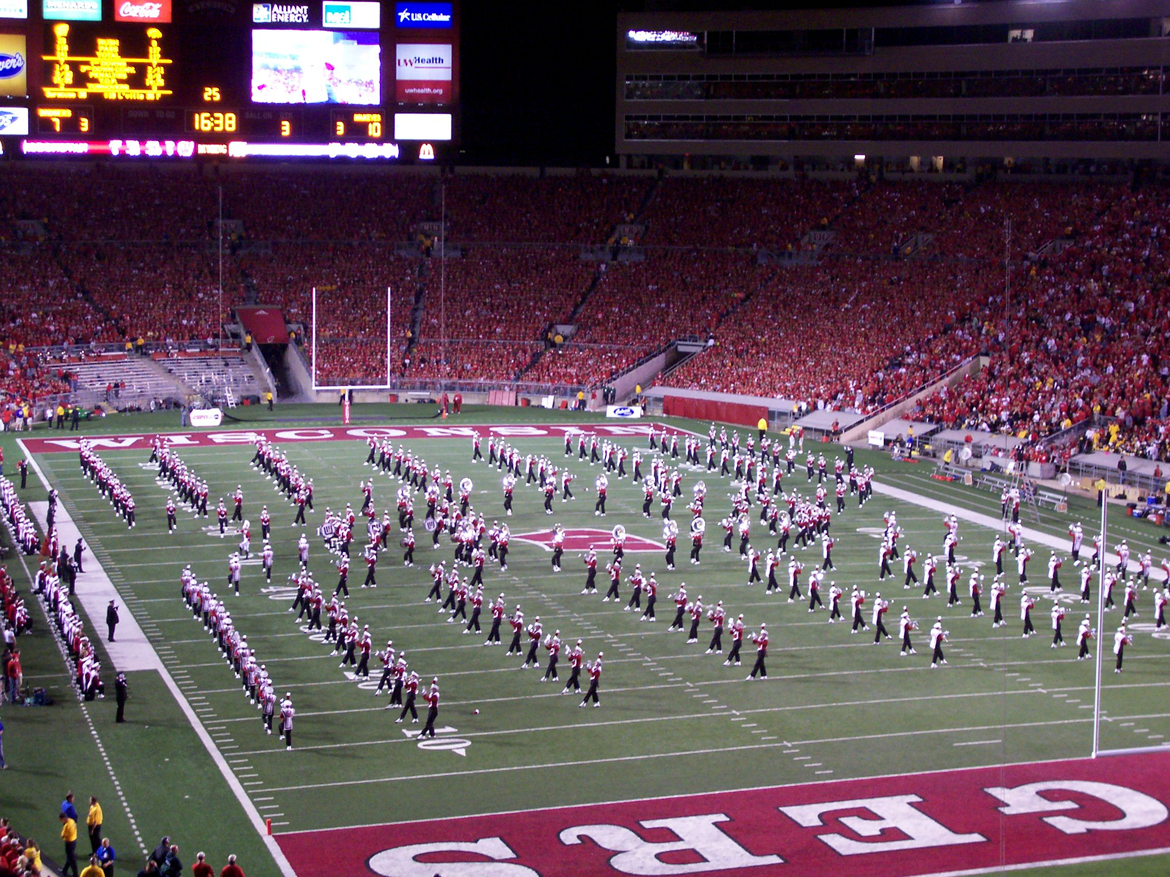 The University of Wisconsin Marching Band performing during halftime of a University of Wisconsin-Madison game at Camp Randall Stadium.